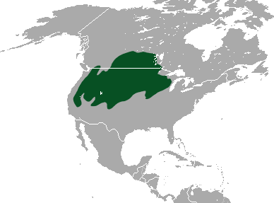 White-tailed Jackrabbit (Lepus townsendii) range